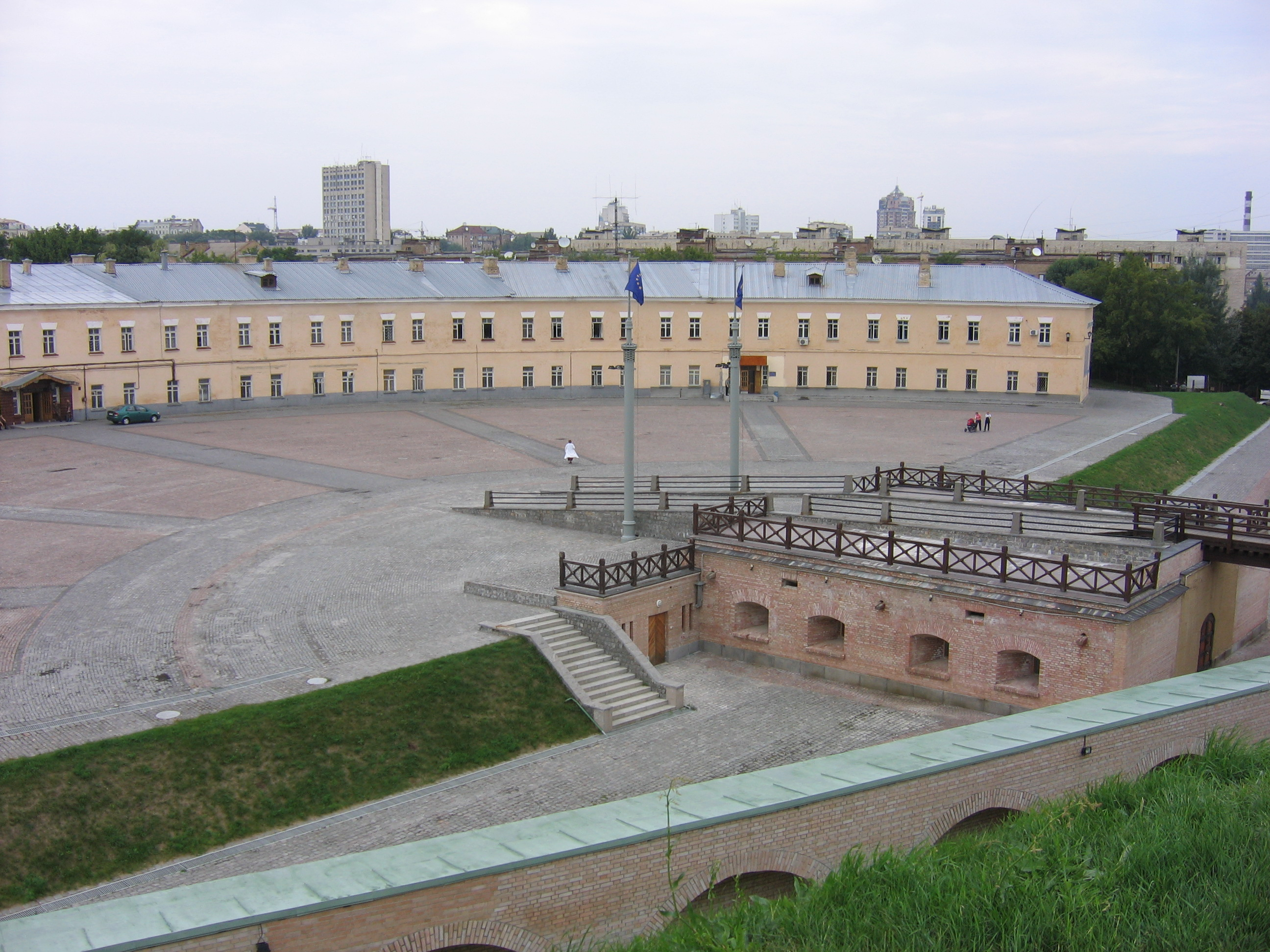 Kiev fortress in Kiev, Ukraine